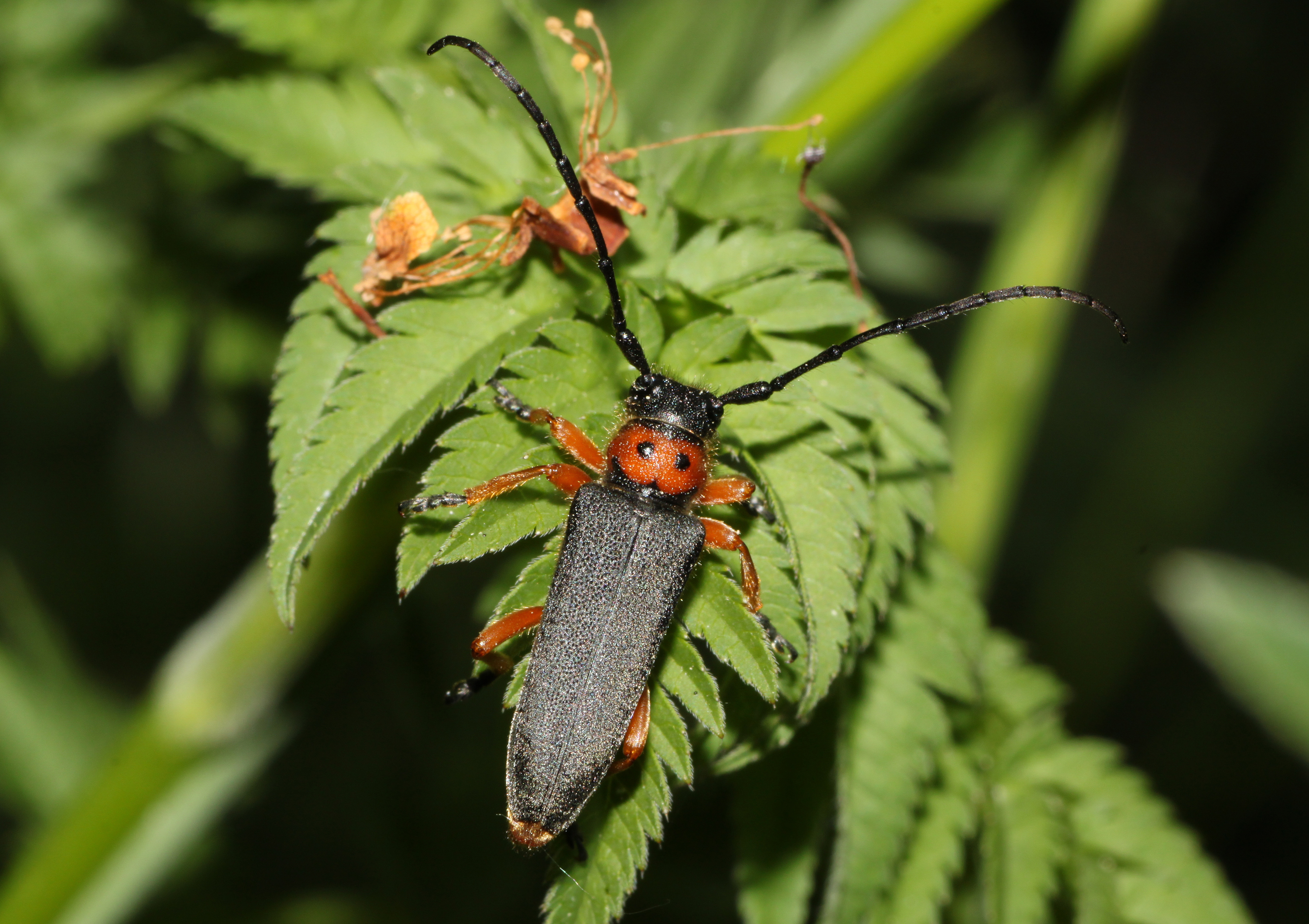 Phytoecia nigripes, Family: Cerambycidae, Location: Germany, Ulm, Eggingen